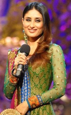 Indian actress Kareena Kapoor on the dance show Nach Baliye 4